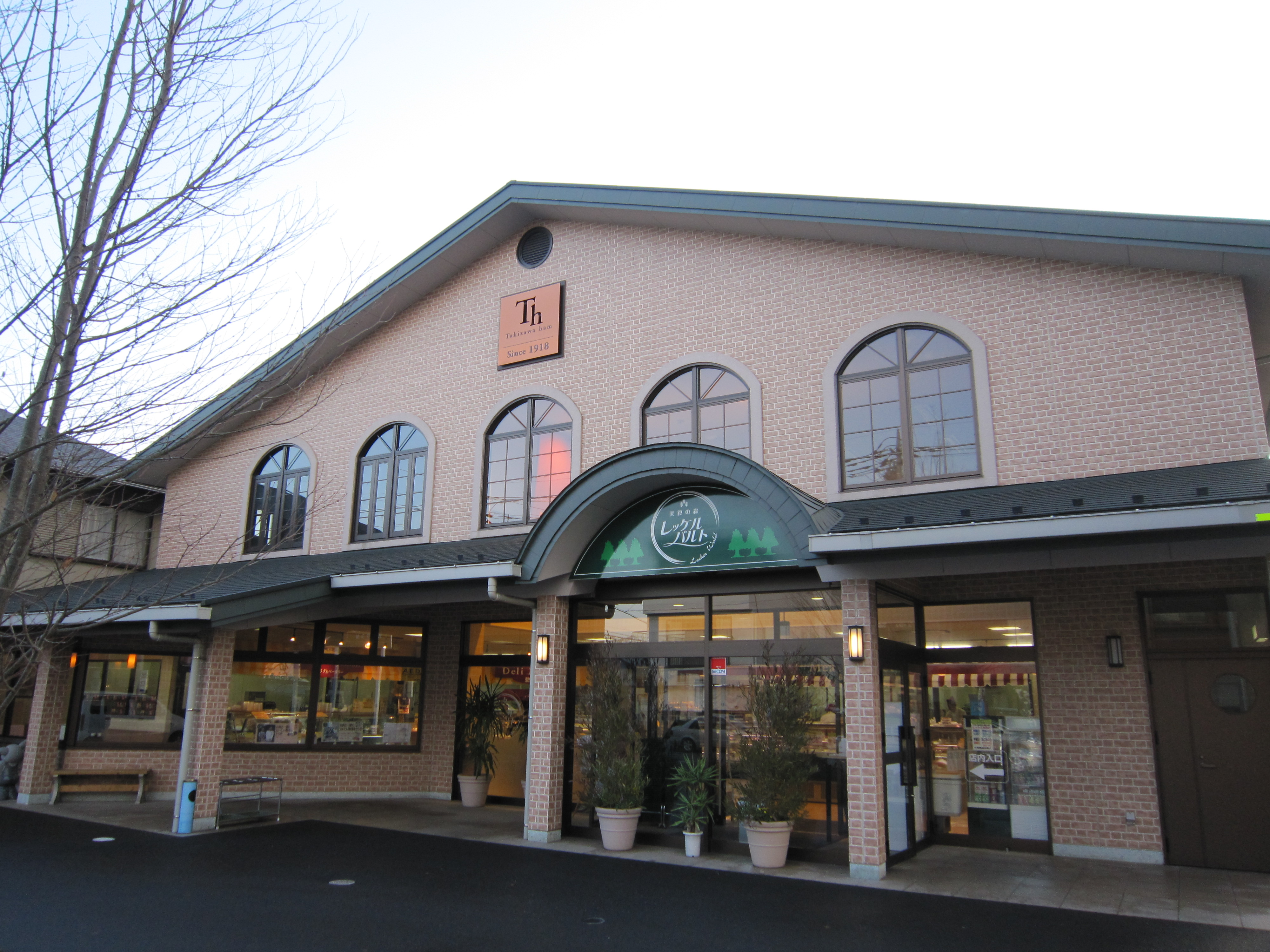 Takizawa hamu Tochigi head office